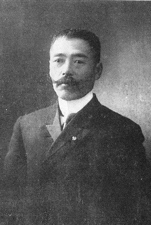 Tomoyasu Uzumasa